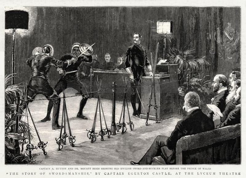 original caption: Captain A. Hutton and Dr. Mouatt Biggs showing Old English sword-and-buckler play before the Prince of Wales "The Story of Swordsmanship," by Captain Egerton Castle, at the Lyceum Theatre